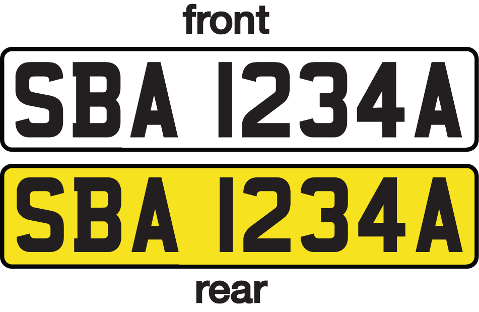 An illustration of Singapore black-on-white (for the front of the vehicle) and black-on-yellow (rear) vehicle registration plates.